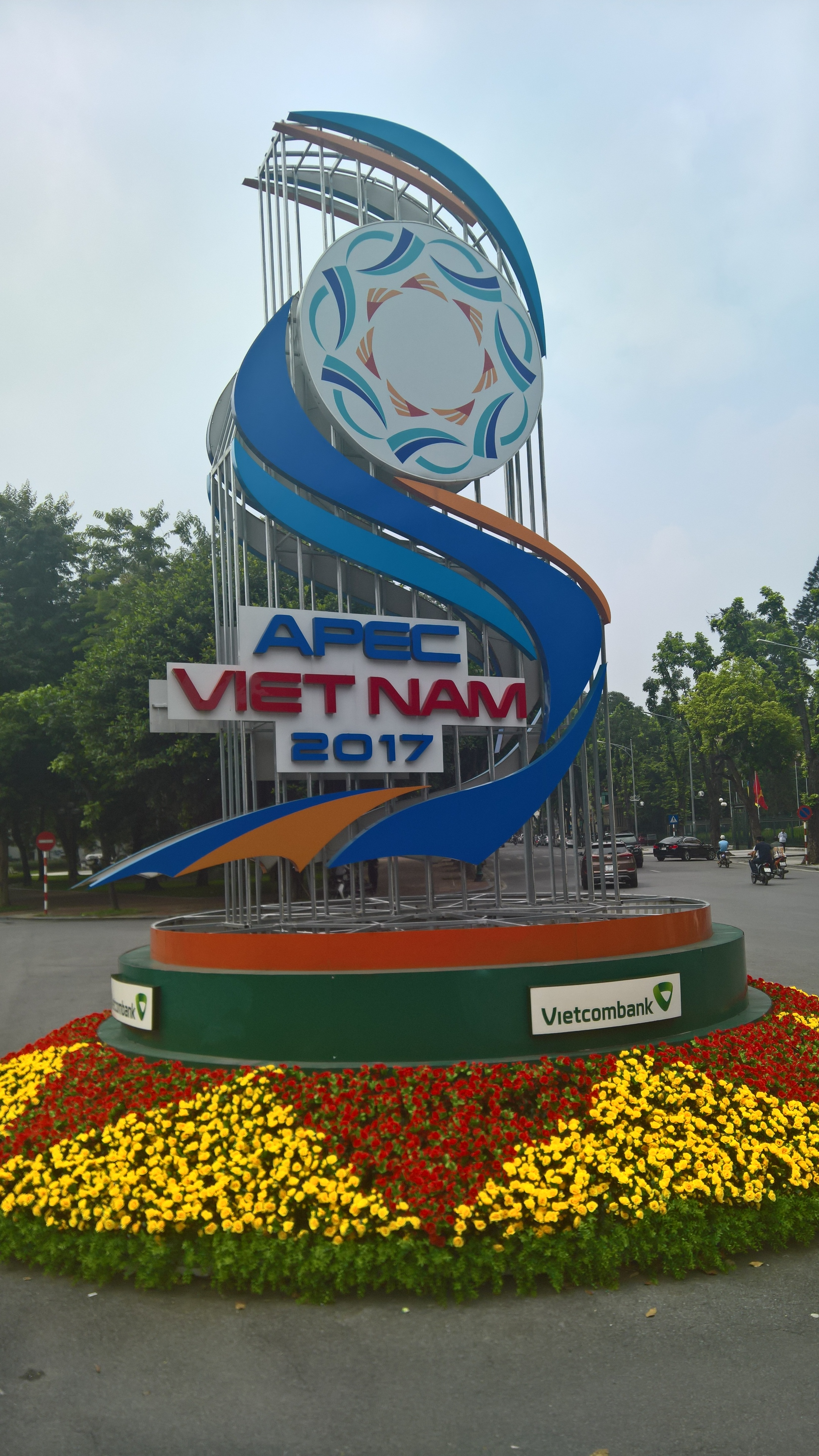 A large decorative sign for the APEC meeting.